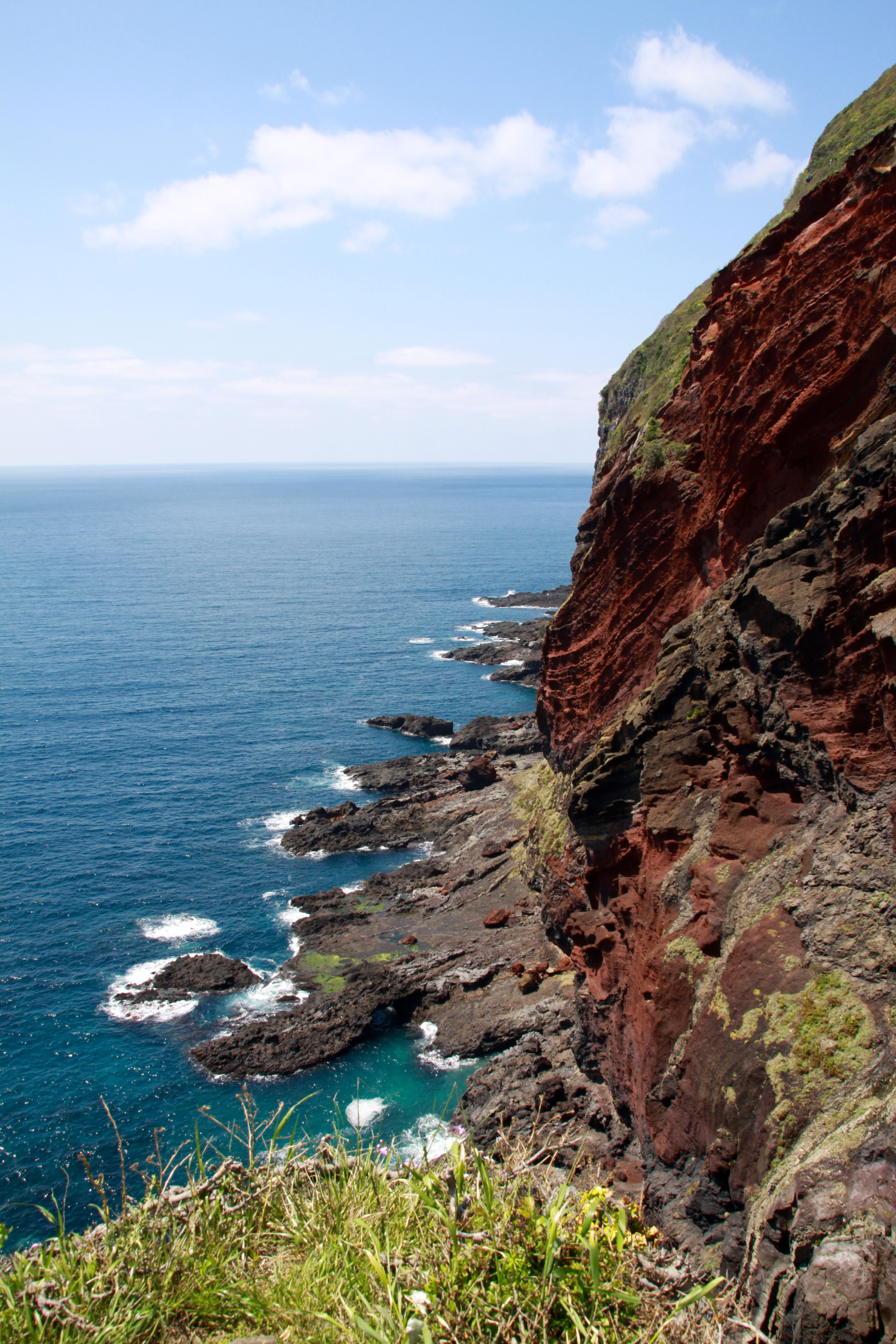 Sekiheki is the cross-section of a former volcano. The rock is a bright red color because the lava was ejected from the volcano at a very high temperature, causing the iron content in the lava to oxidize as it contacted the air. See oki-geopark for detailed information.